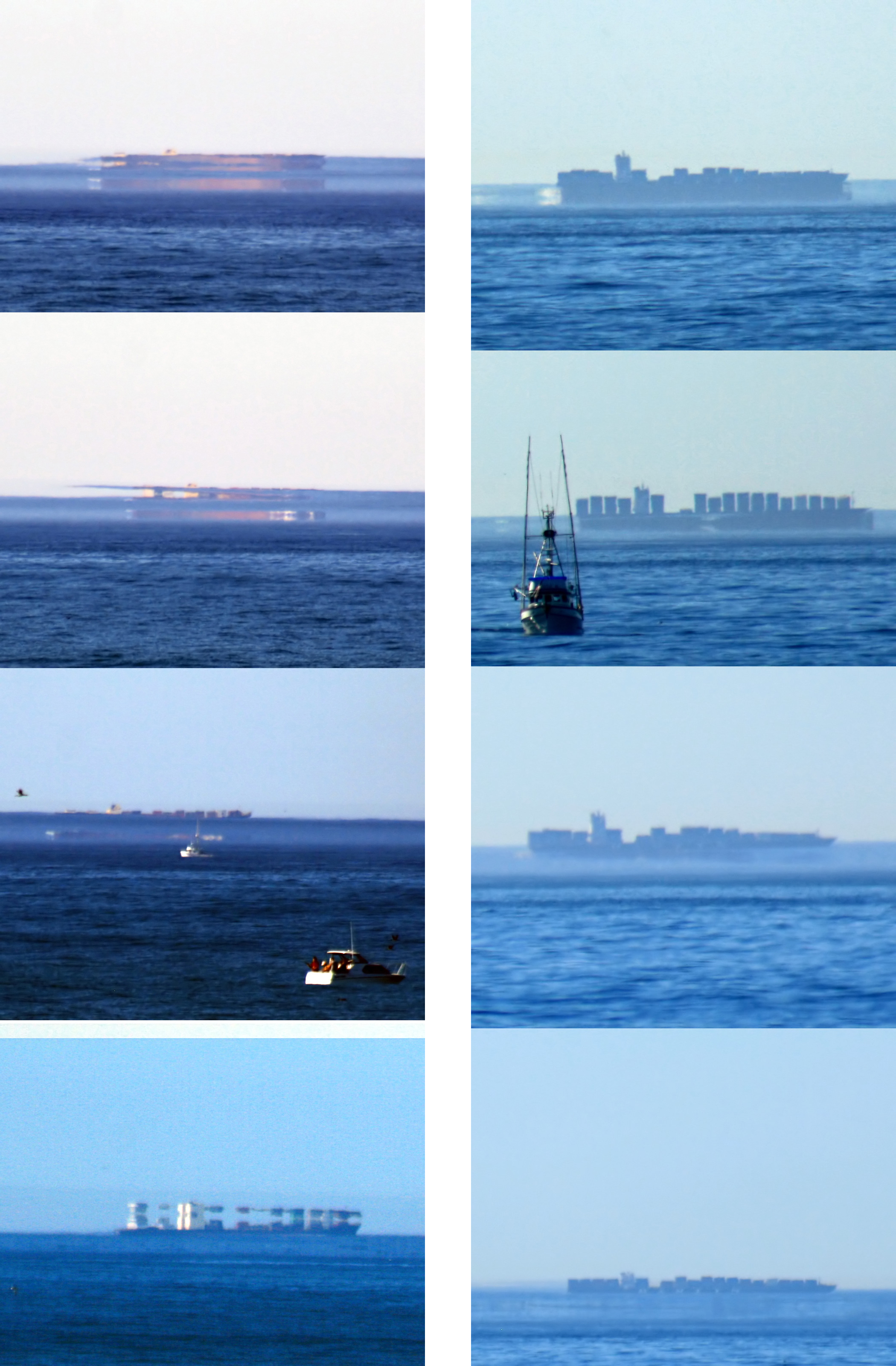 The eight frames image show how Fata Morgana mirage is changing constantly the appearance of the two ships. Four frames in the first column is ship # 1, and four frames in the second column is ship # 2.